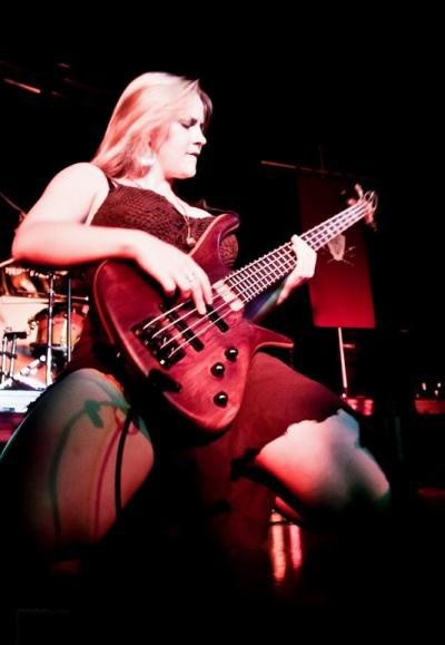 Photo taken on Percival Schuttenbach's concert, Szczecin 2010.